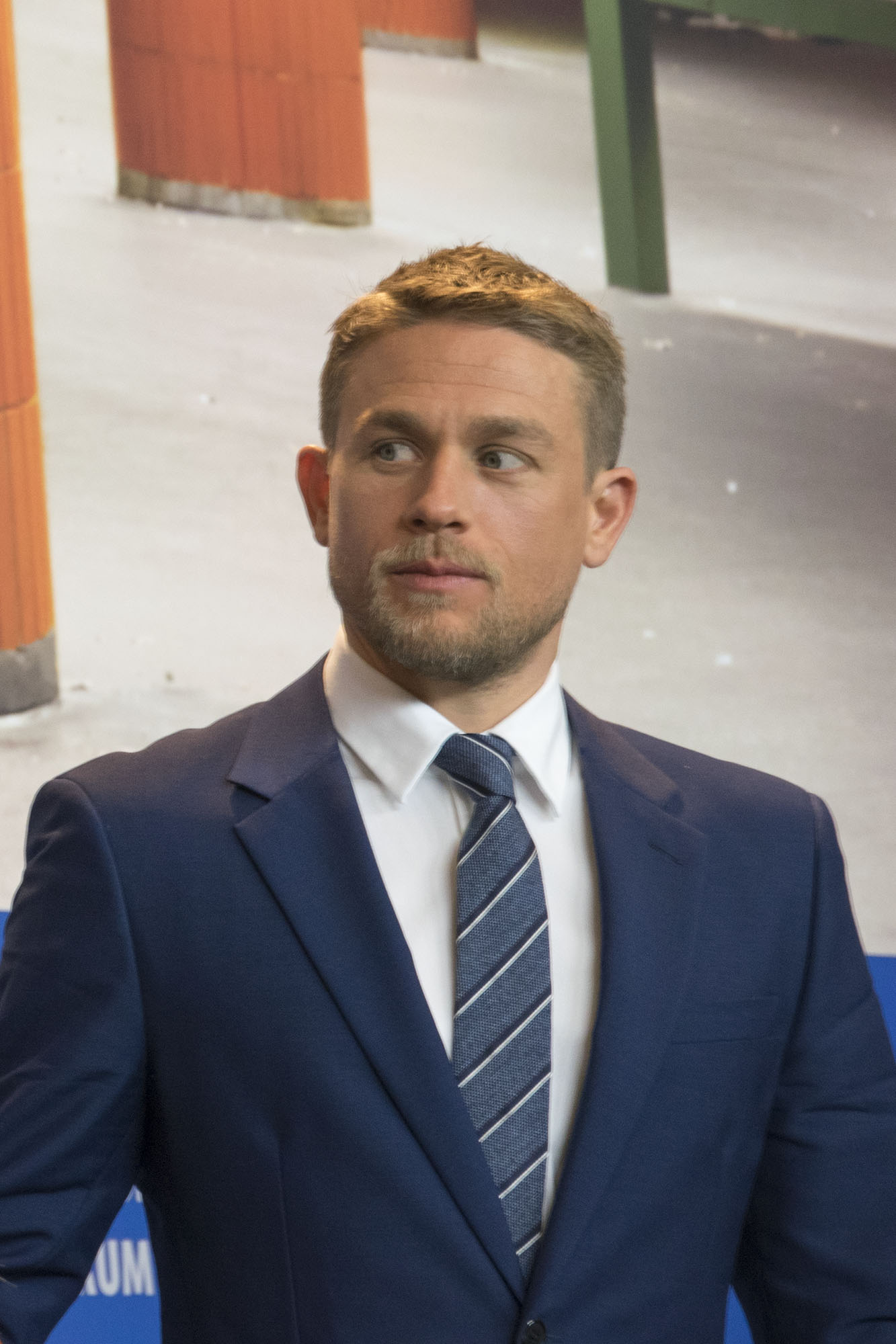 Charlie Hunnam at the press conference of the film The Lost City of Z at the 2017 Berlin International Film Festival